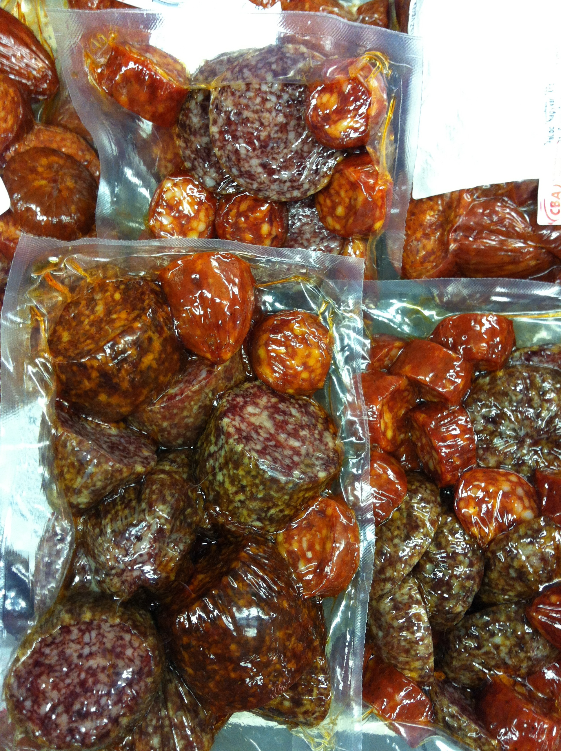 Cut off sausage ends sold at a discount price under the name "absnicli" (from South German das Abschnitzel ’falling off during cutting’) in Hungary.